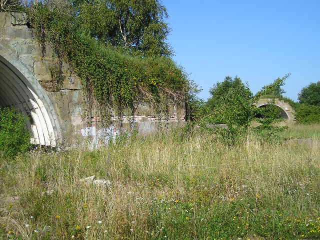 Bagicz, former Soviet airbase in Poland